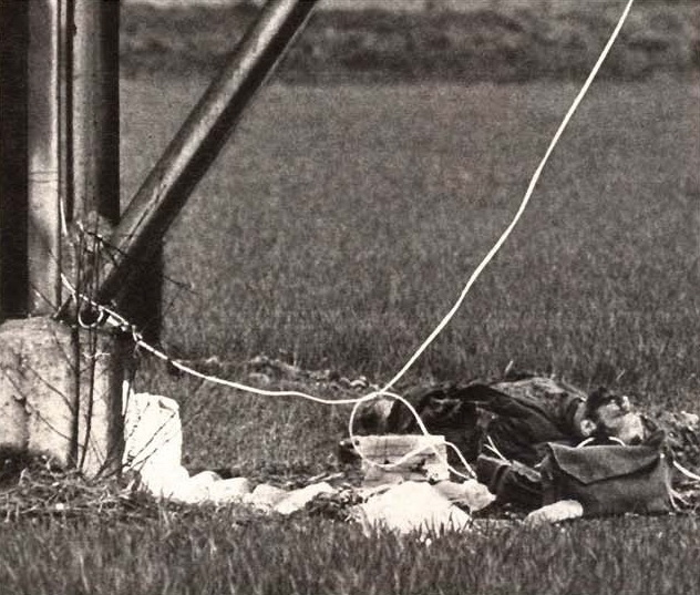 Giangiacomo Feltrinelli dead